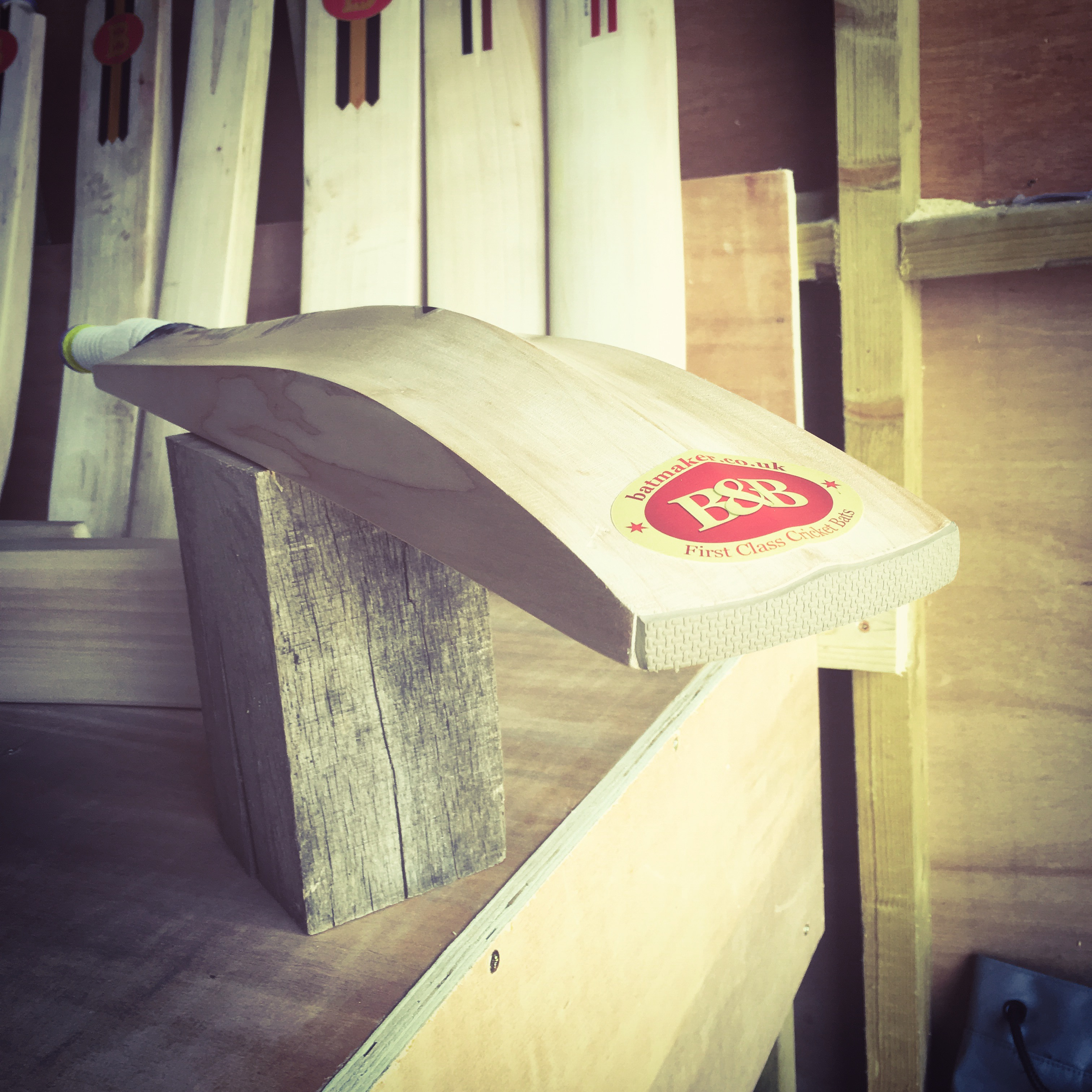 Handmade bat